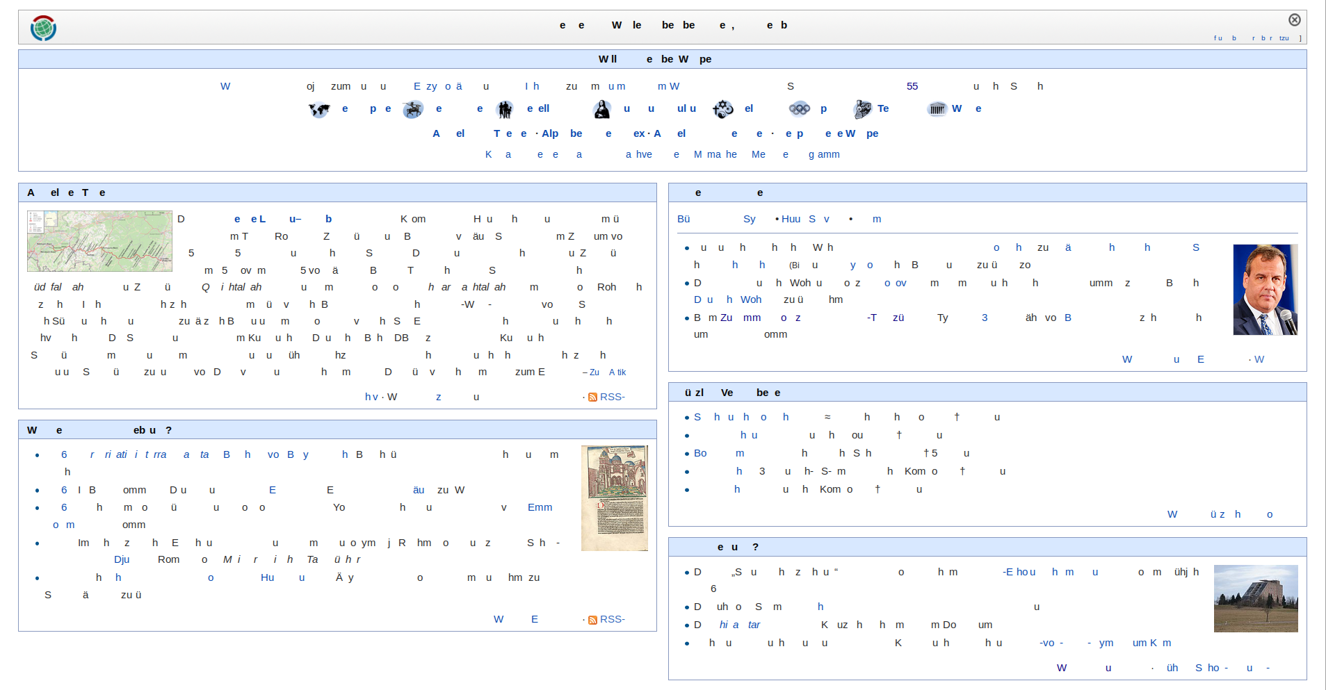 Letter salad